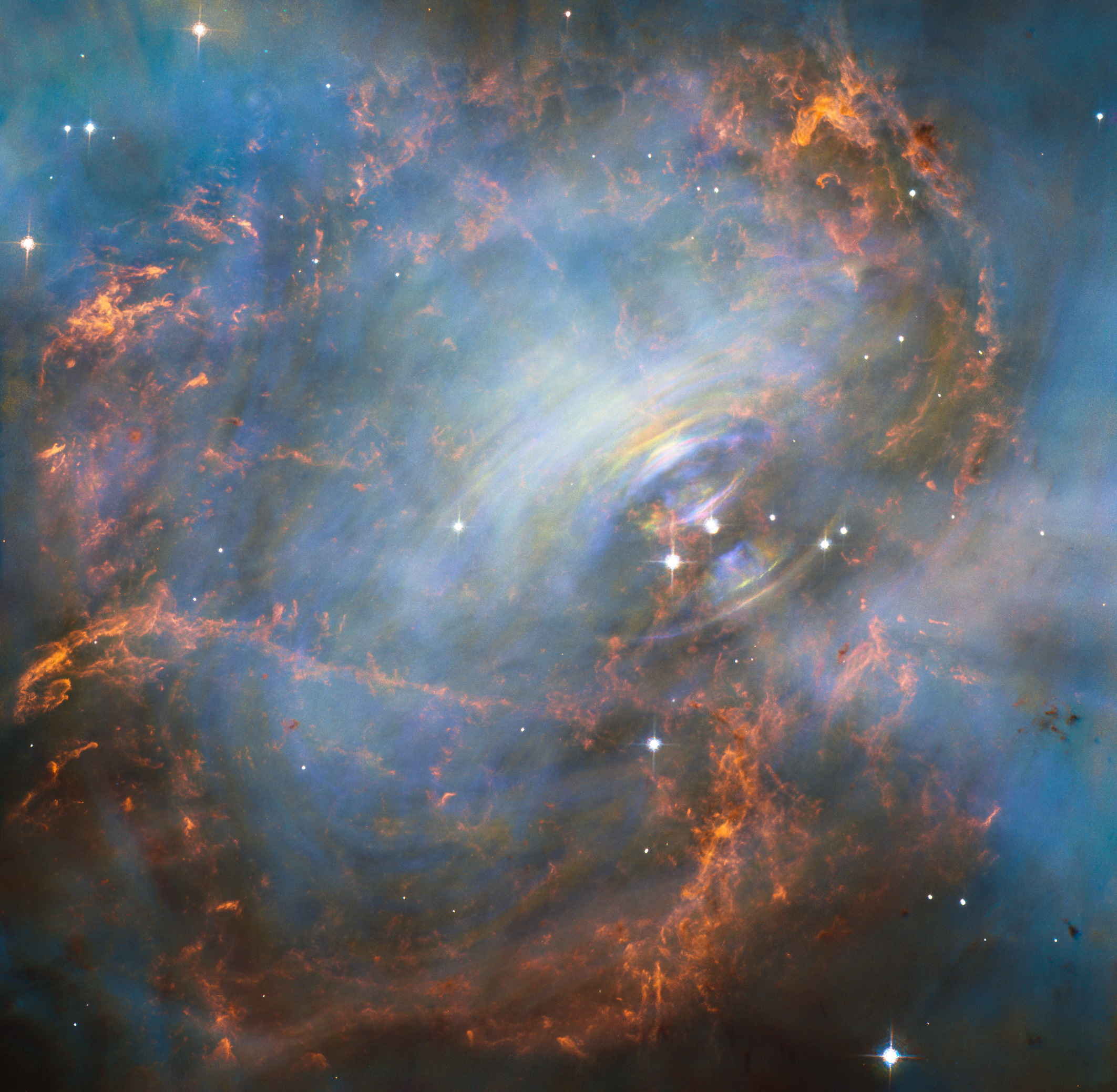 While many other images of the famous Crab Nebula have focused on the filaments in the outer part of the nebula, this image shows the very heart of the Crab Nebula including the central neutron star — it is the rightmost of the two bright stars near the centre of this image. The rapid motion of the material nearest to the central star is revealed by the subtle rainbow of colours in this time-lapse image, the rainbow effect being due to the movement of material over the time between one image and another.